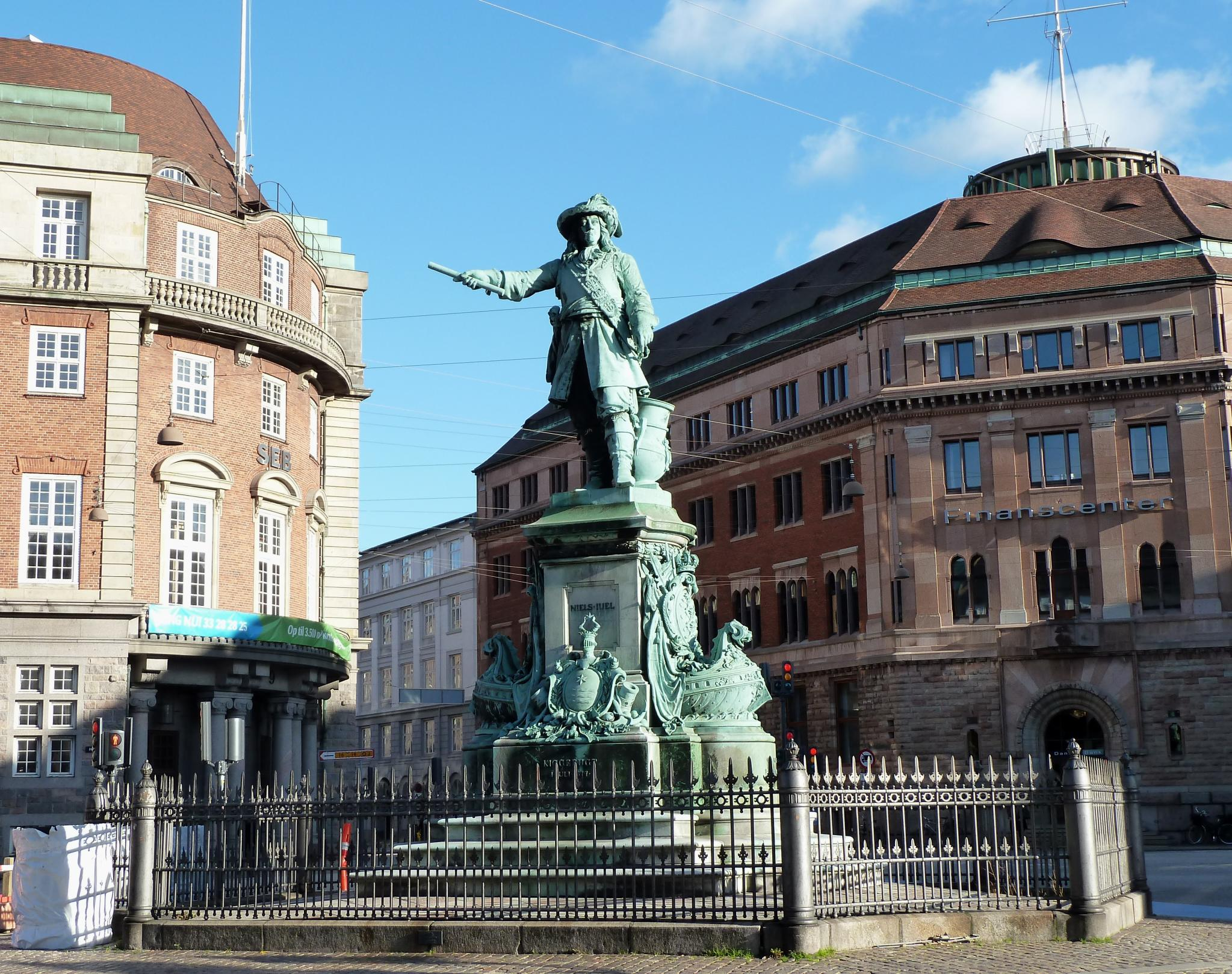 Statue of Niels Juel in Copenhagen, Denmark